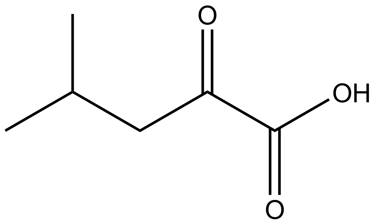 Chemical structure of Alpha-ketoisocaproic acid